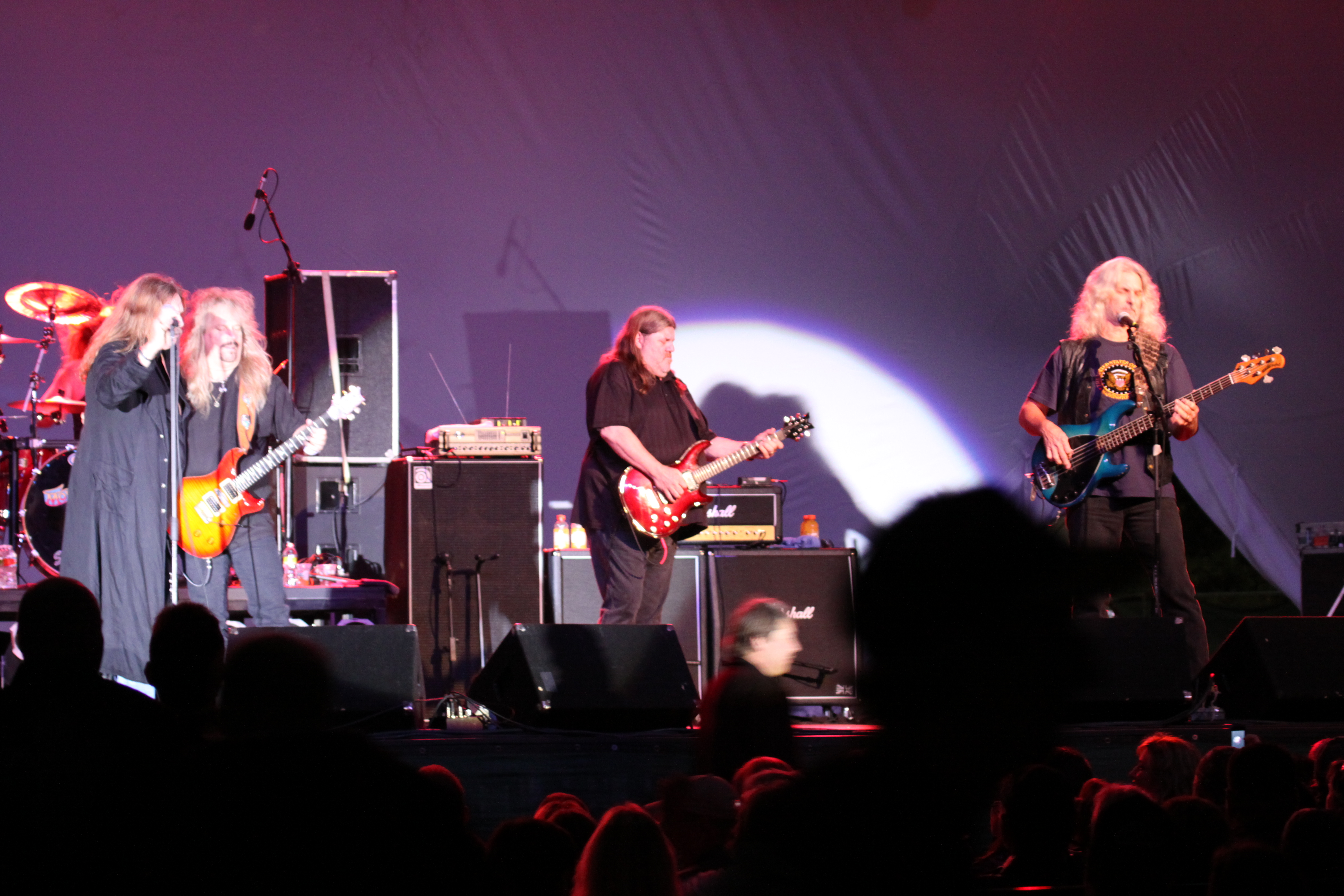 The Molly Hatchet Band performing at the Bikes, Blues and BBQ mortorcycle rally in Fayetteville Arkansas.